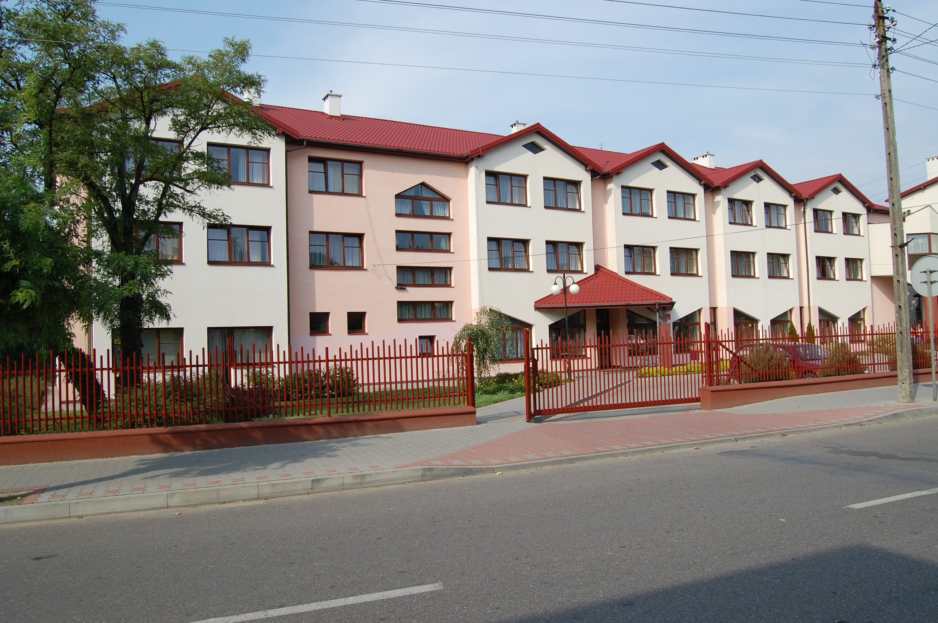 Boarding-school in Żelechów